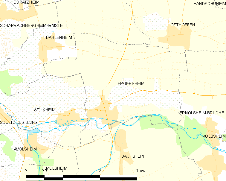 Map of French municipality